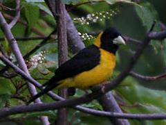 Black-&-Yellow Grosbeak Mycerobas icterioides in in Kullu District of Himachal Pradesh, India.